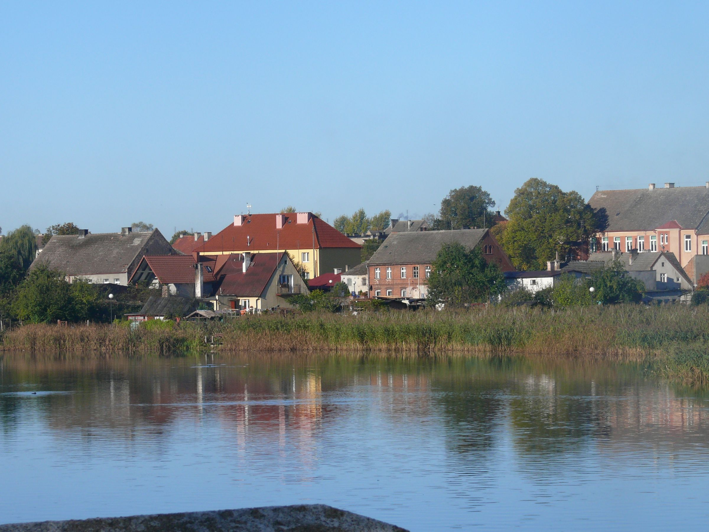 Poland, Drawno